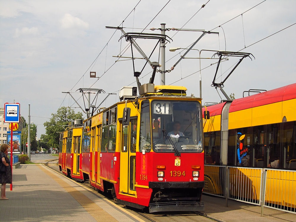 Konstal 105Ne 1394+1393, tram line 31, Warsaw, 2016